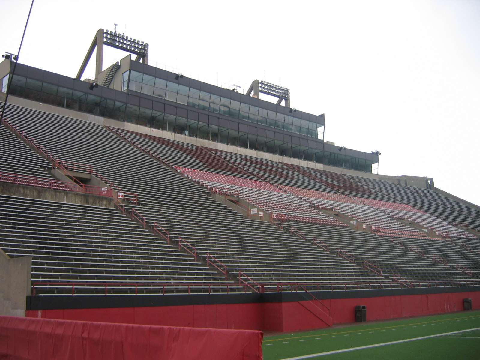 Football & Basketball Facilities Youngstown State Football Stadium